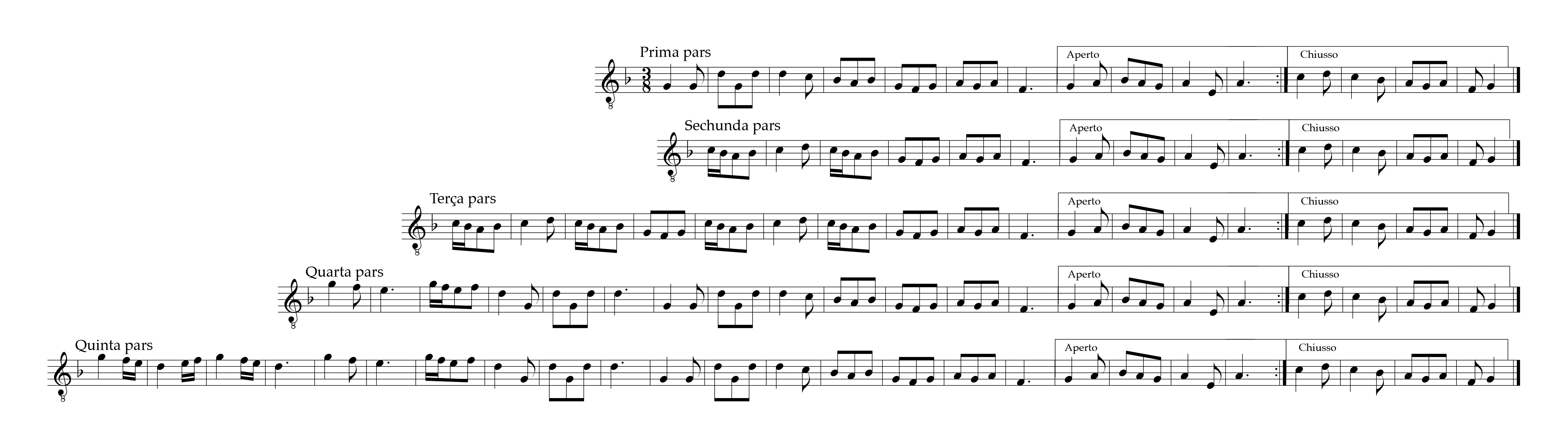 The Trotto from British Library manuscript Add MS 29987, transcribed in reduced note values after Sebastian Kelber, Josef Ulsamer (1978–83). Mittelalterliche Spielmannstänze aus Italien = Dances of the Jongleurs of Mediaeval Italy. Celle: Moeck Verlag.